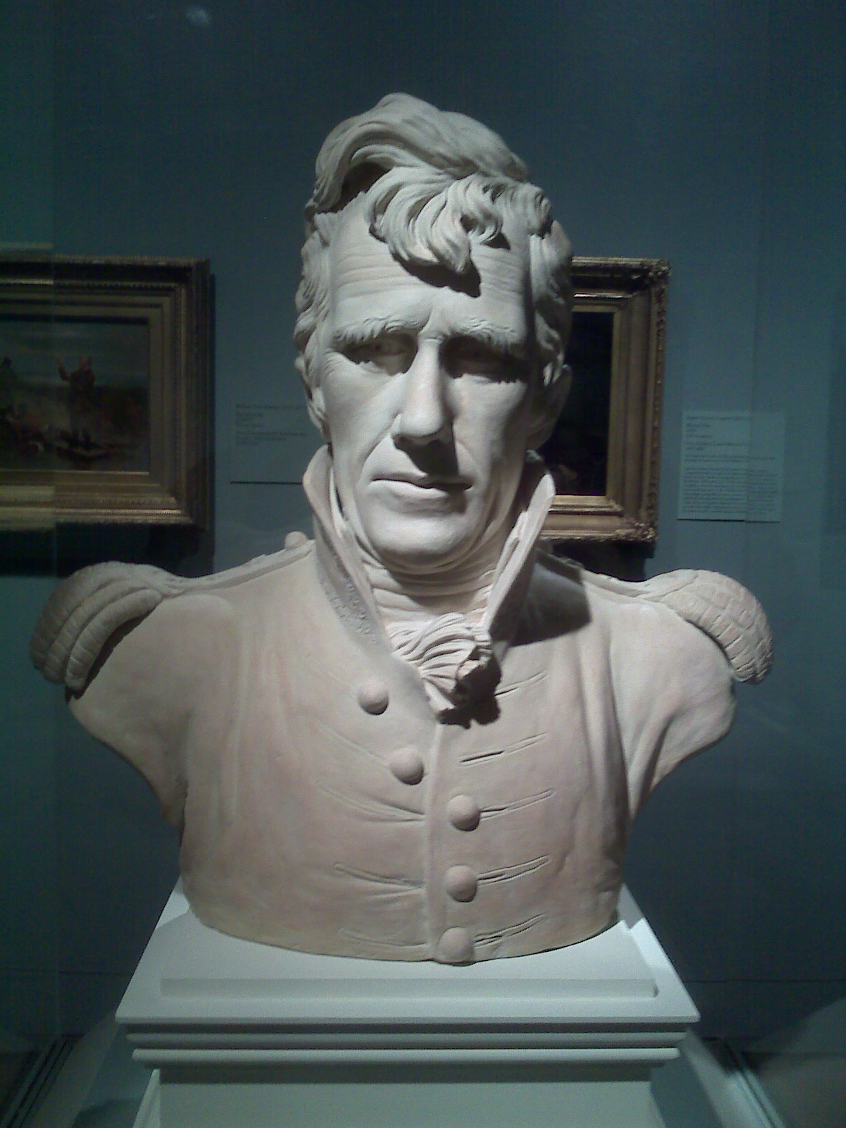 Bust of Andrew Jackson sculpted from terracotta by William Rush in 1819.